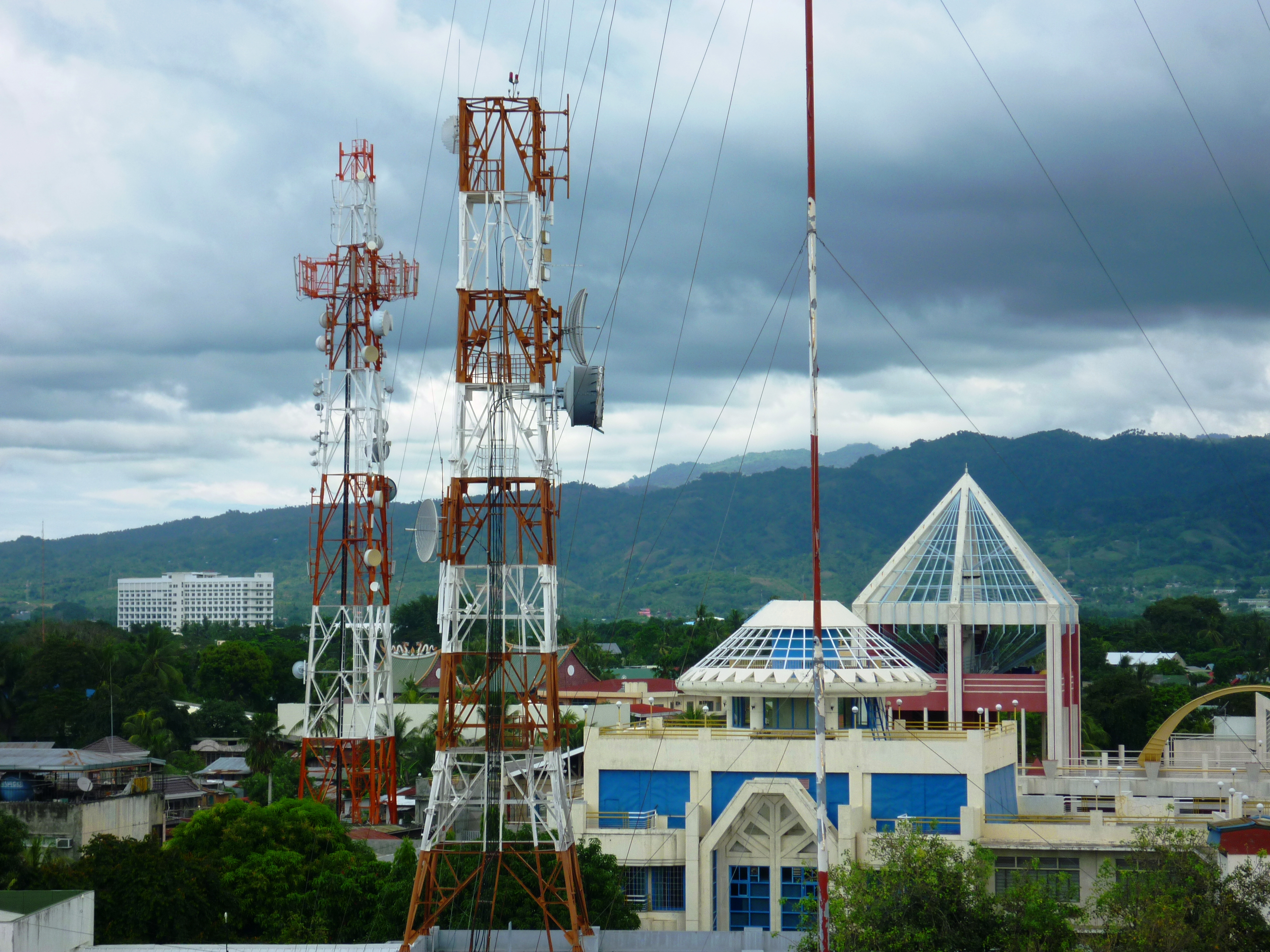 Zamboanga City Satellite Towers Smart and PLDT Compound